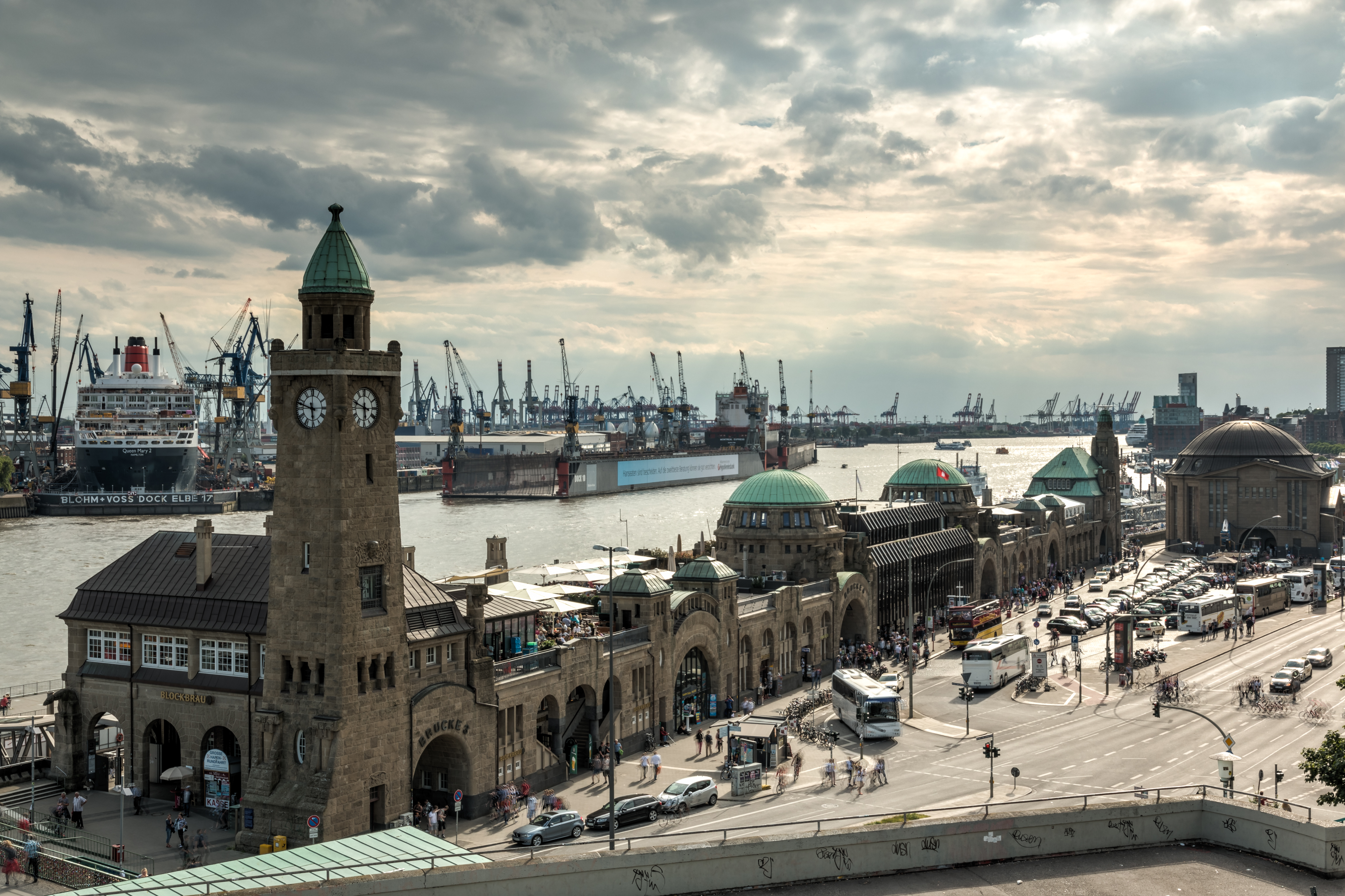 Landungsbrücken, Hamburg, Germany